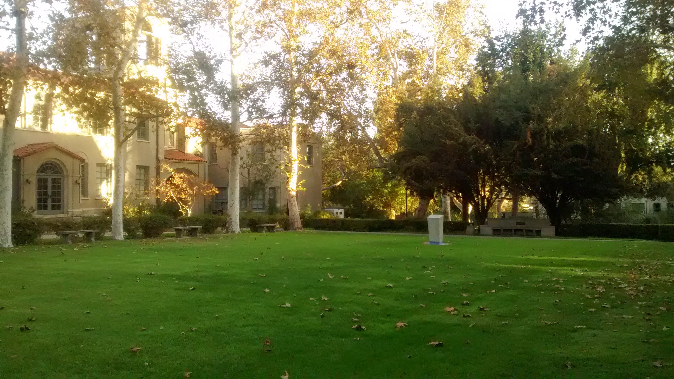 A view of Pomona College's Sumner Hall from the Memorial Garden.